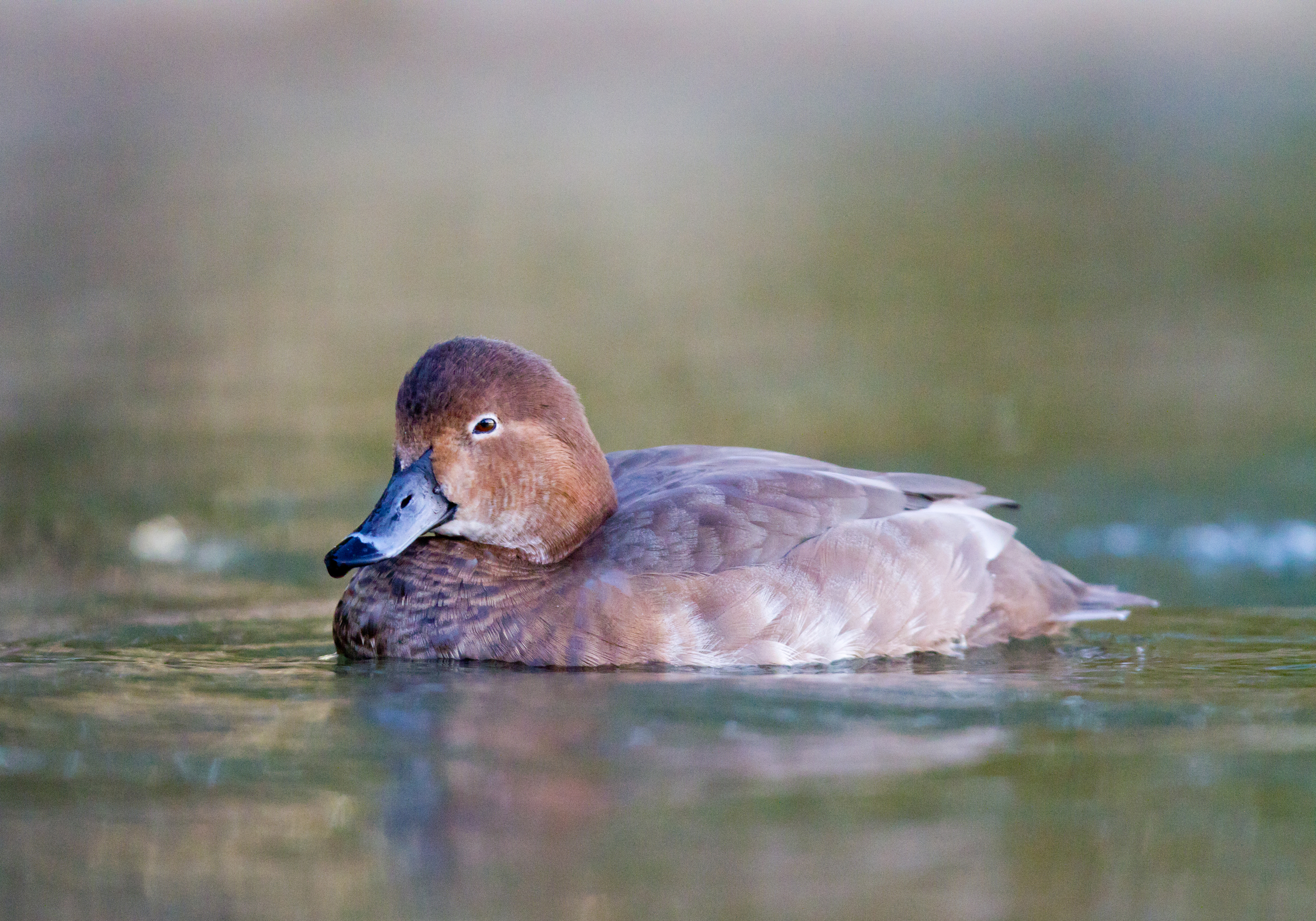 Redhead Aythya americana, female, at Binz, Houston, Texas.